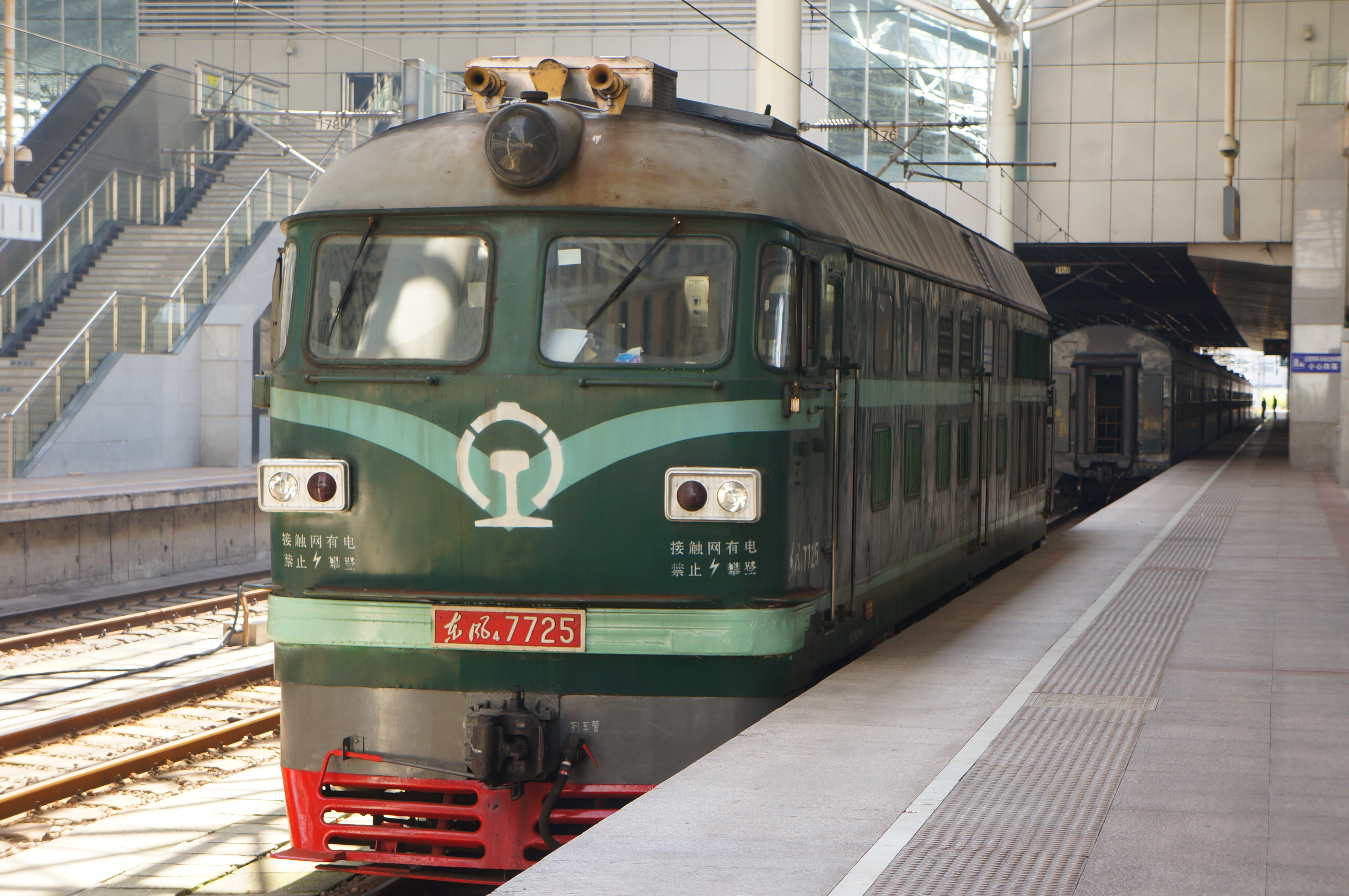 201704 DF4B-7725 at Shanghai Station